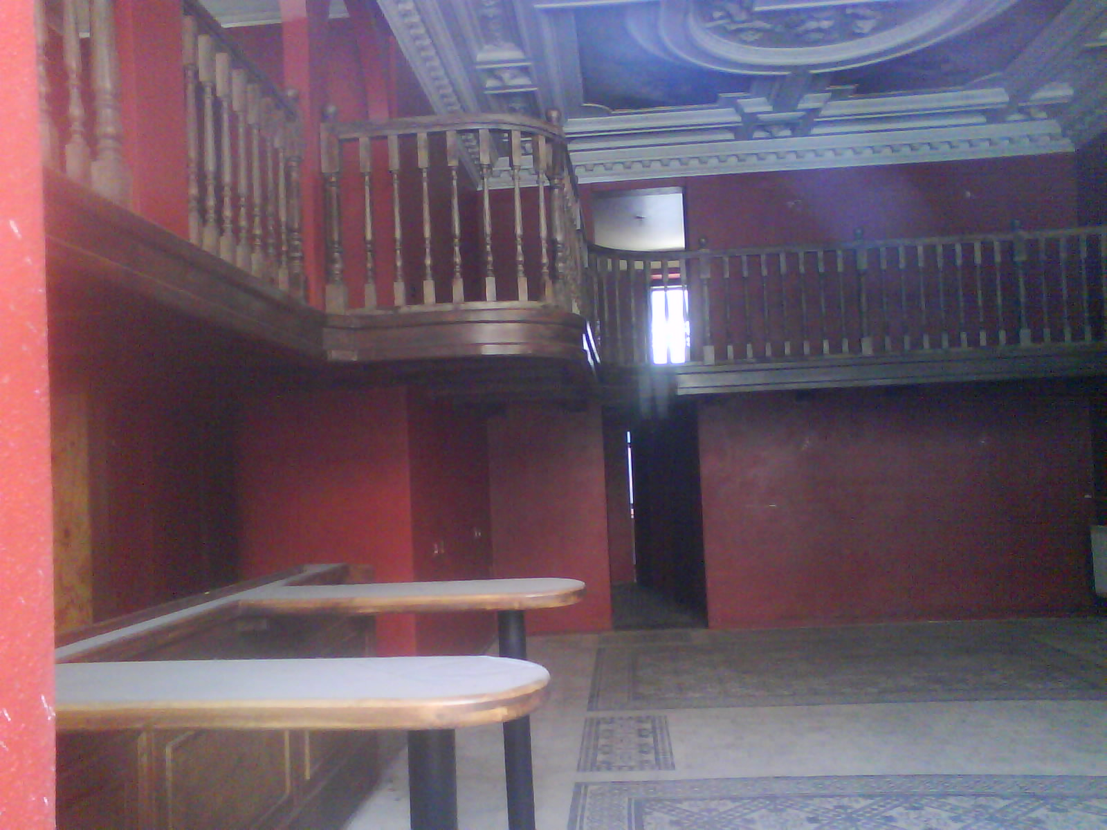 Interior of the Pharmacy Salvator commercial ground floor, located at Panská Street No. 35, Old Town, Bratislava, Slovakia.